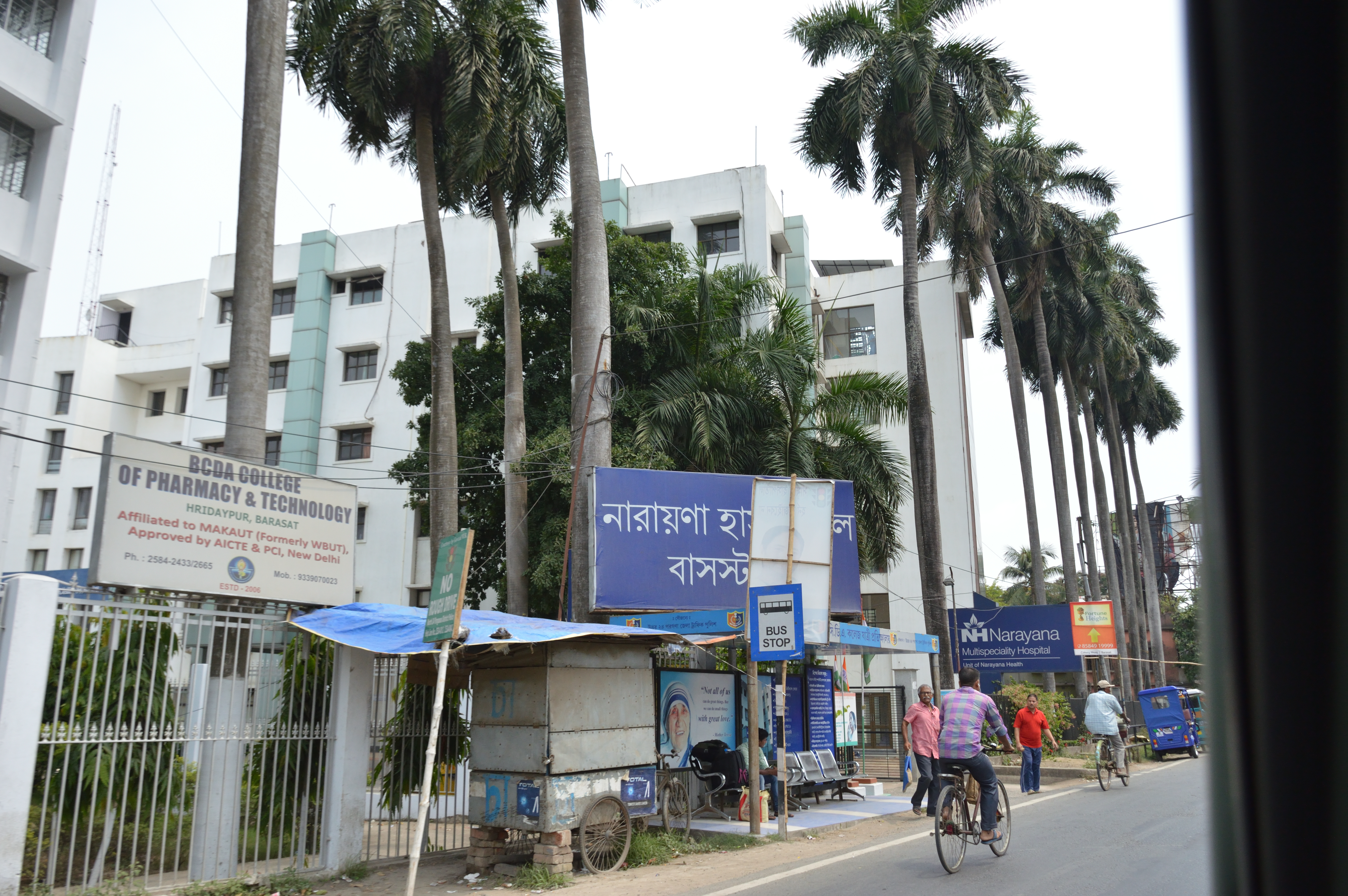 Photographed in Kolkata, West Bengal, India.